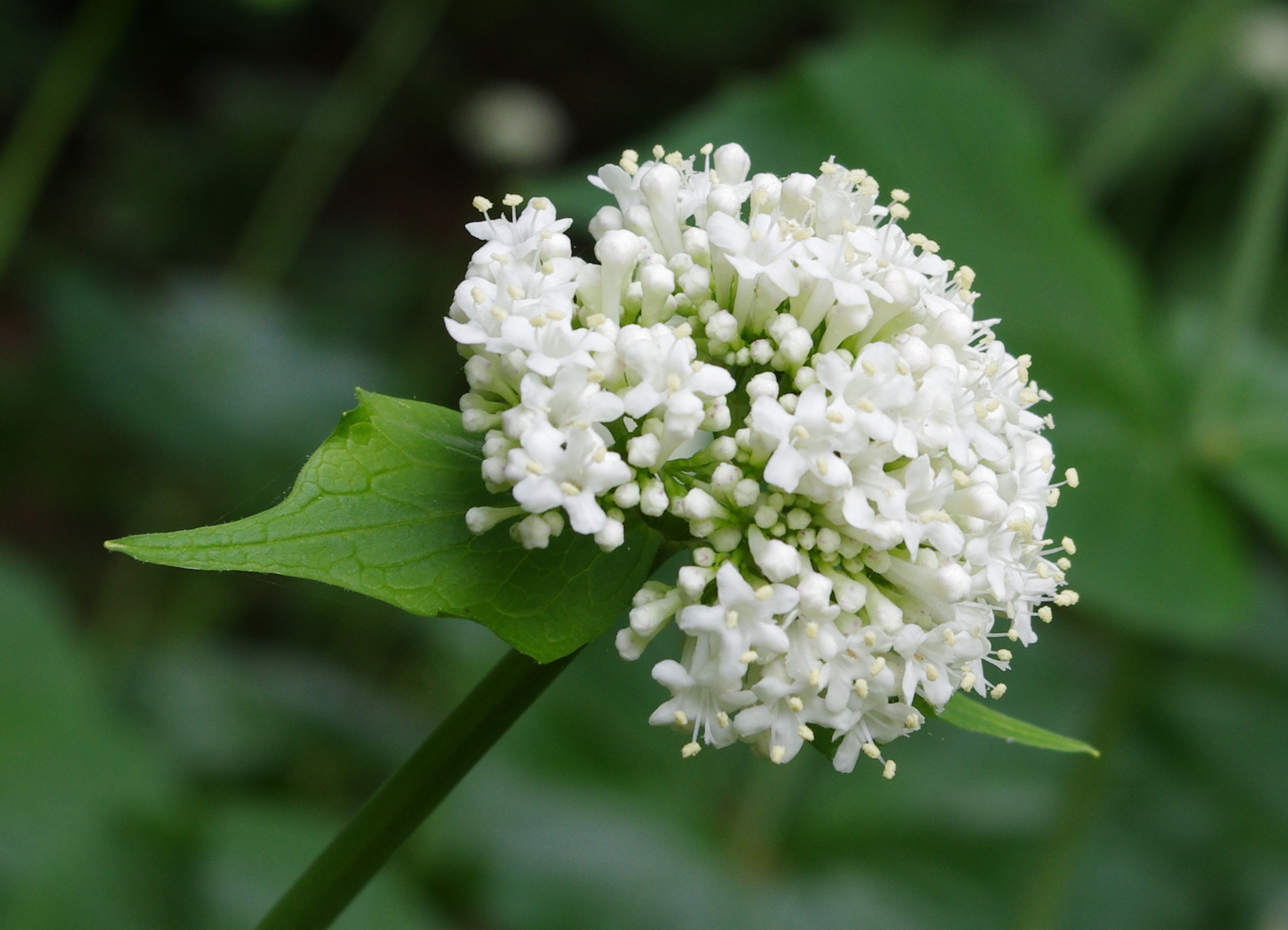 Valeriana alliariifolia at the ÖBG Bayreuth